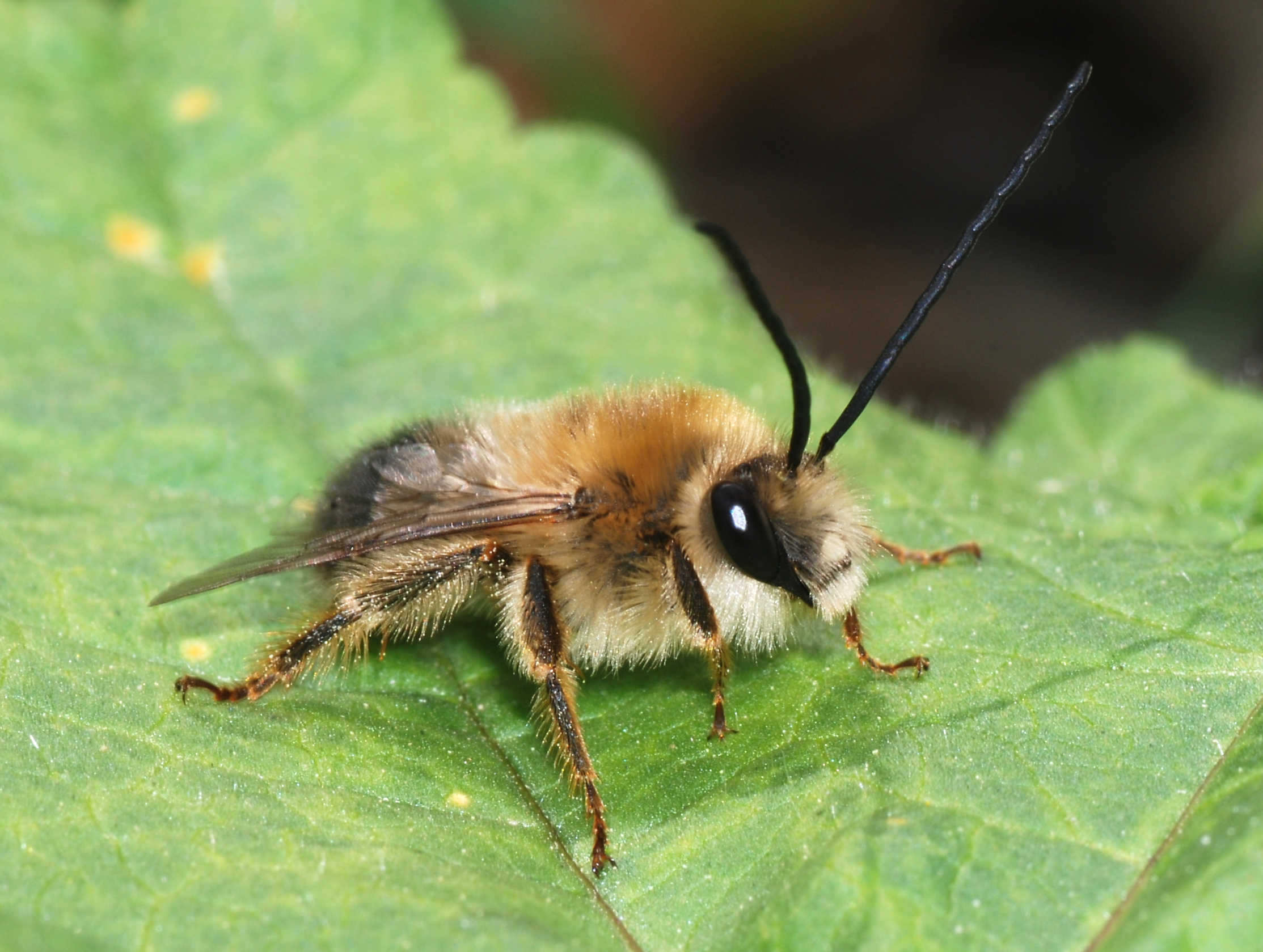 A male bee Eucera cf. longicornis